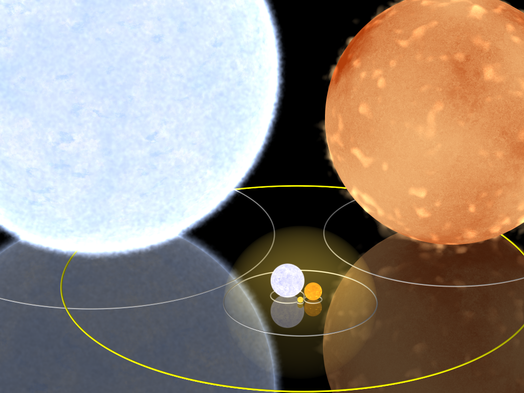 Comparison of size of Rigel (blue star top left) and Aldebaran (red star top right) with the smaller objects (lower middle) from Image:1e9m comparison Gamma Orionis, Algol B, the Sun, and smaller - antialiased transparency.png, to scale. The faint yellow sphere centred on the Sun has a radius of one light-minute. The large yellow ellipse represents Mercury's orbit. No transparency version.